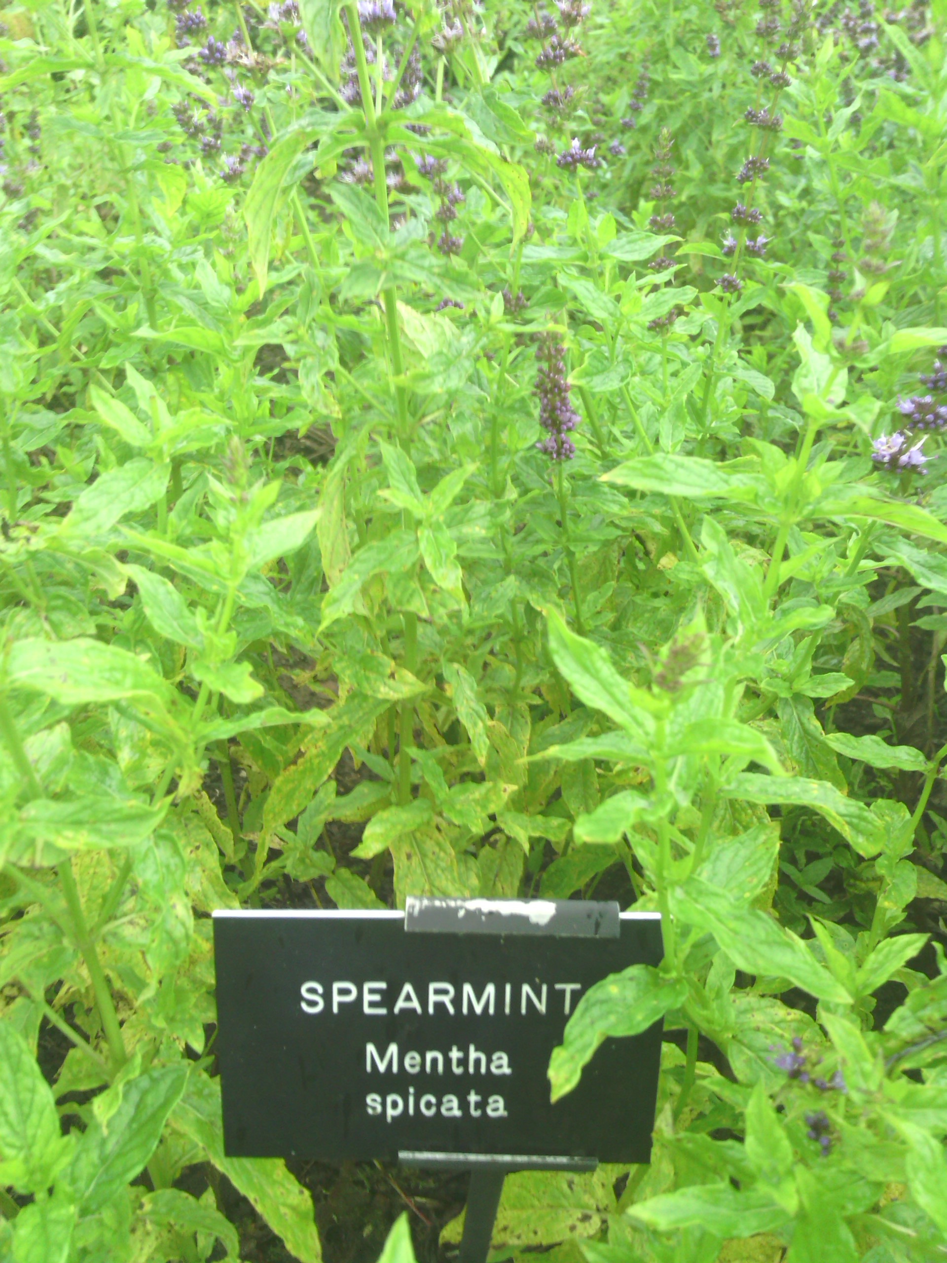 Mentha spicata - A plant from Hardwick Hall's Herb Garden - August 2012